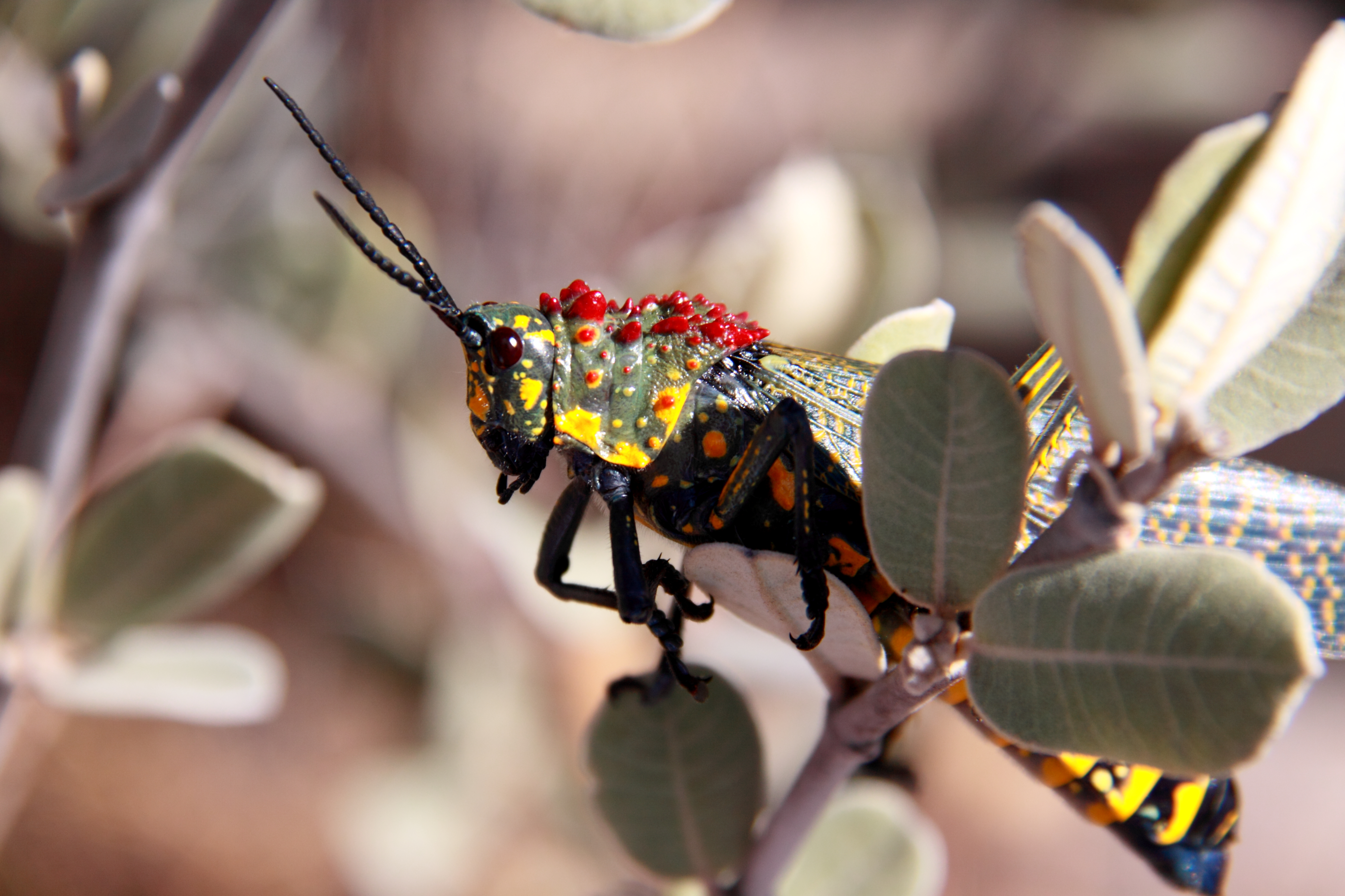 madagascar, sauterelle